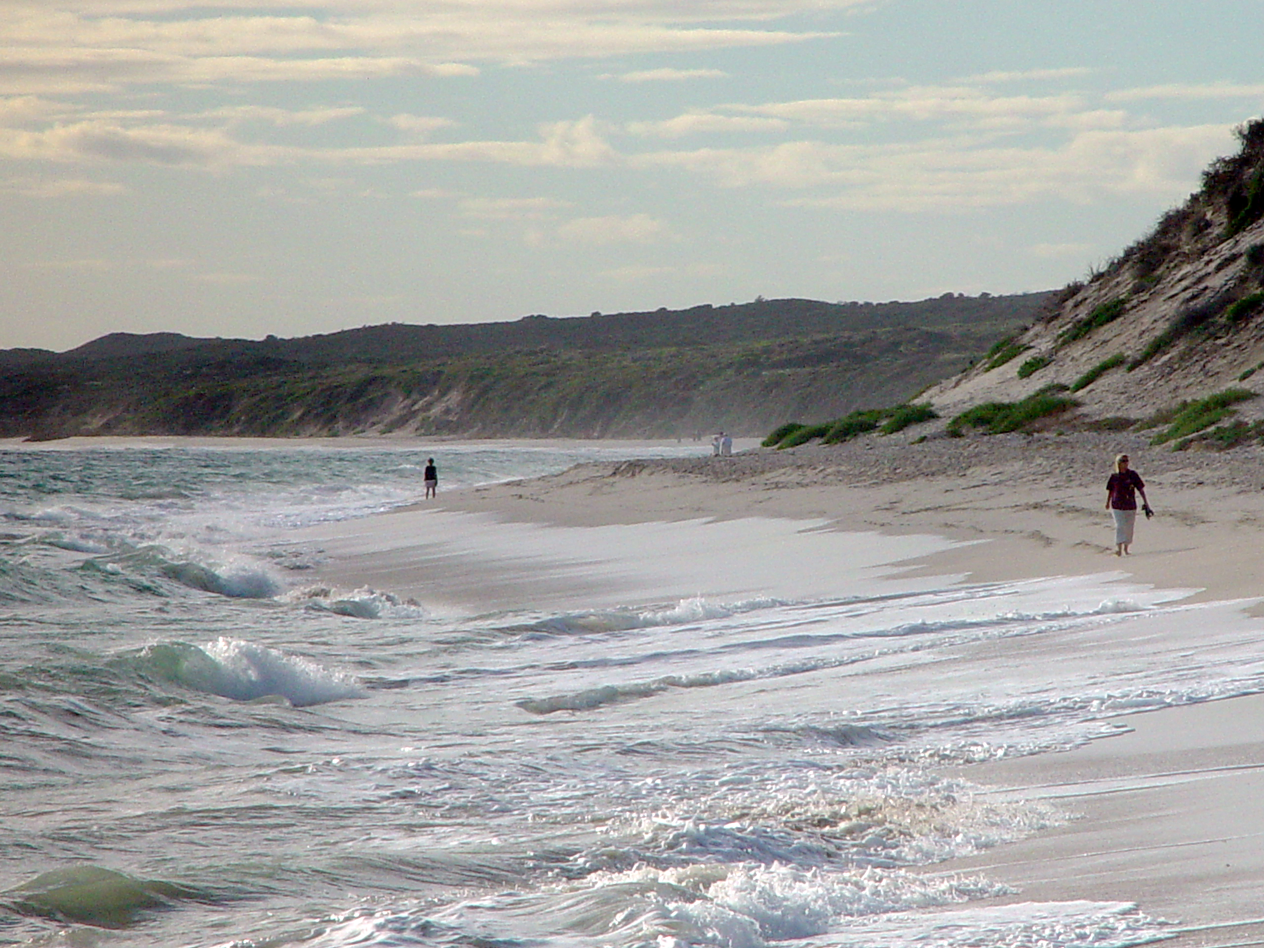 Beach walkers to the north, Wanneroo Beach